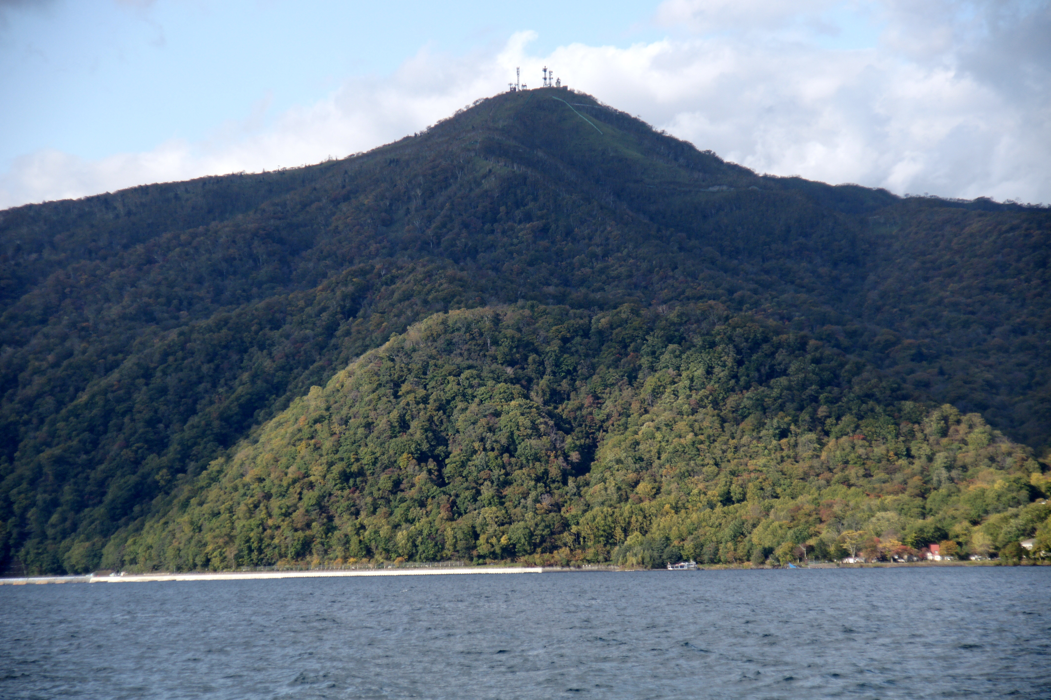 Mt. Monbetsu-dake view from Lake Shikotsu, Chitose, Hokkaido prefecture, Japan